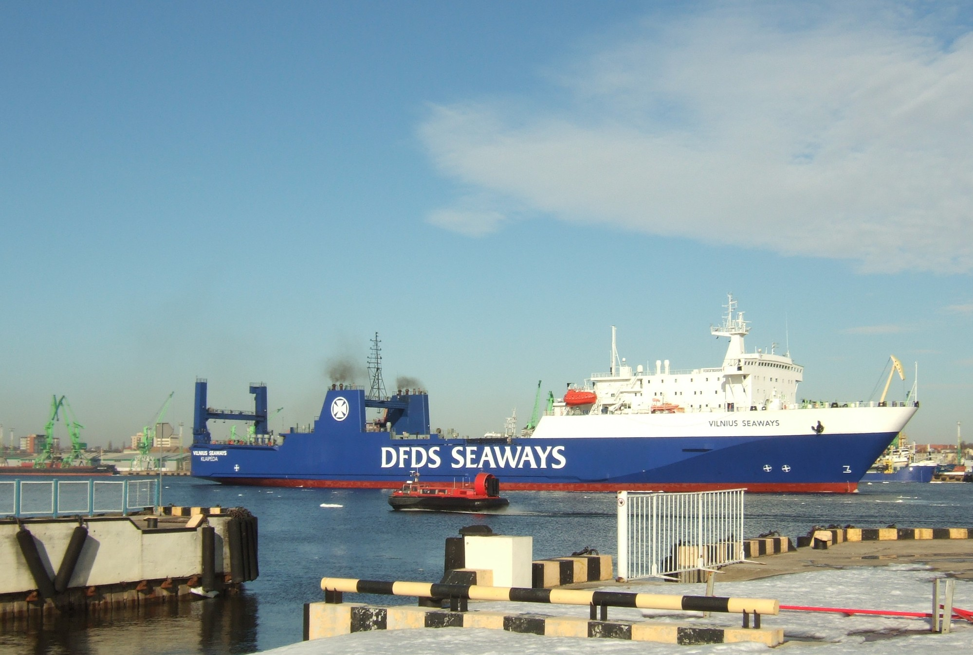 Ferry VILNIUS SEAWAYS